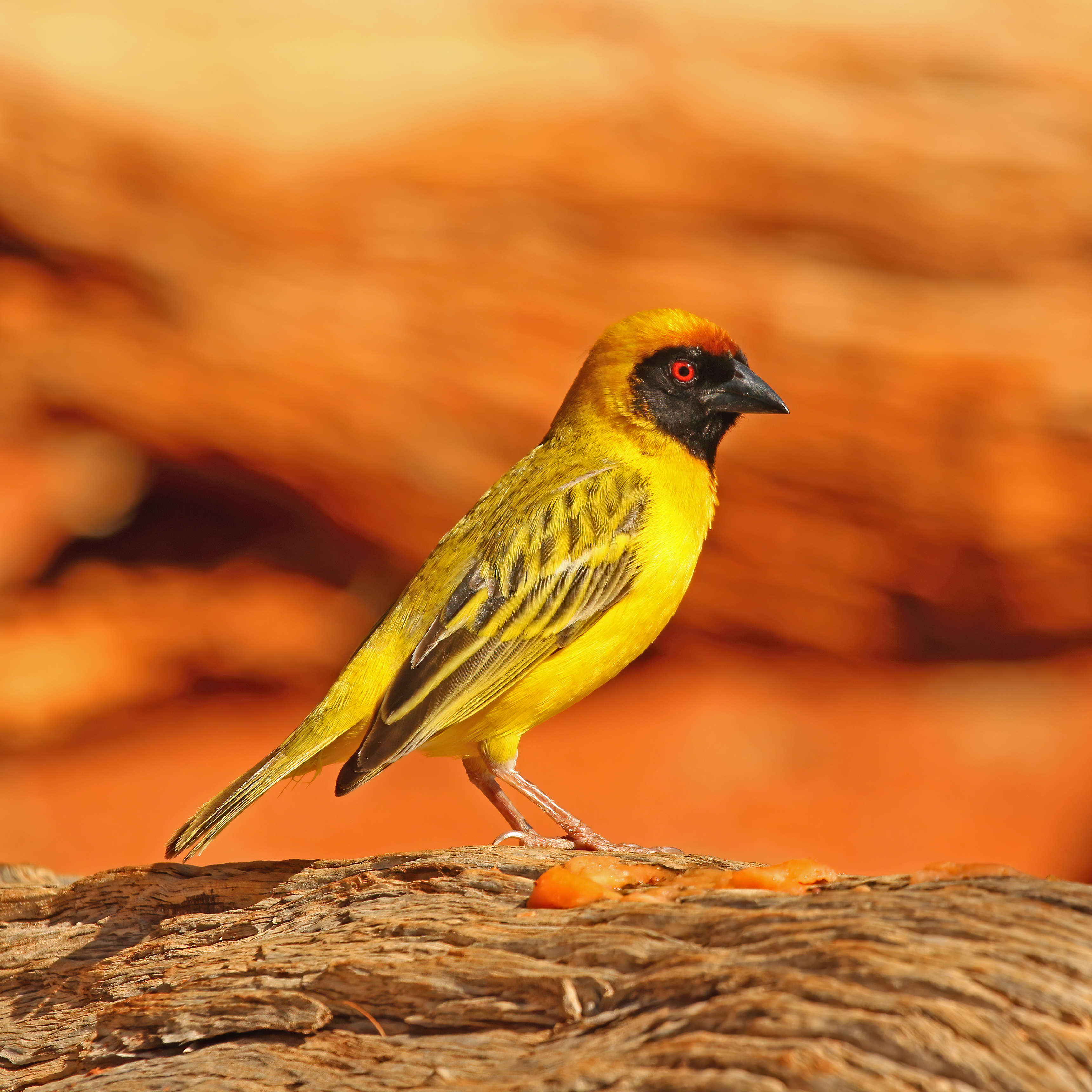 Southern masked weaver (Ploceus velatus) male, Tswalu Kalahari Reserve, South Africa